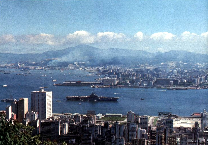 The U.S. Navy aircraft carrier USS Hancock (CV-19) during her last port visit to Hong Kong, in 1975. Hancock, with assigned to Carrier Air Wing 21 (CVW-21), was deployed to the Western Pacific from 18 March to 20 October 1975.